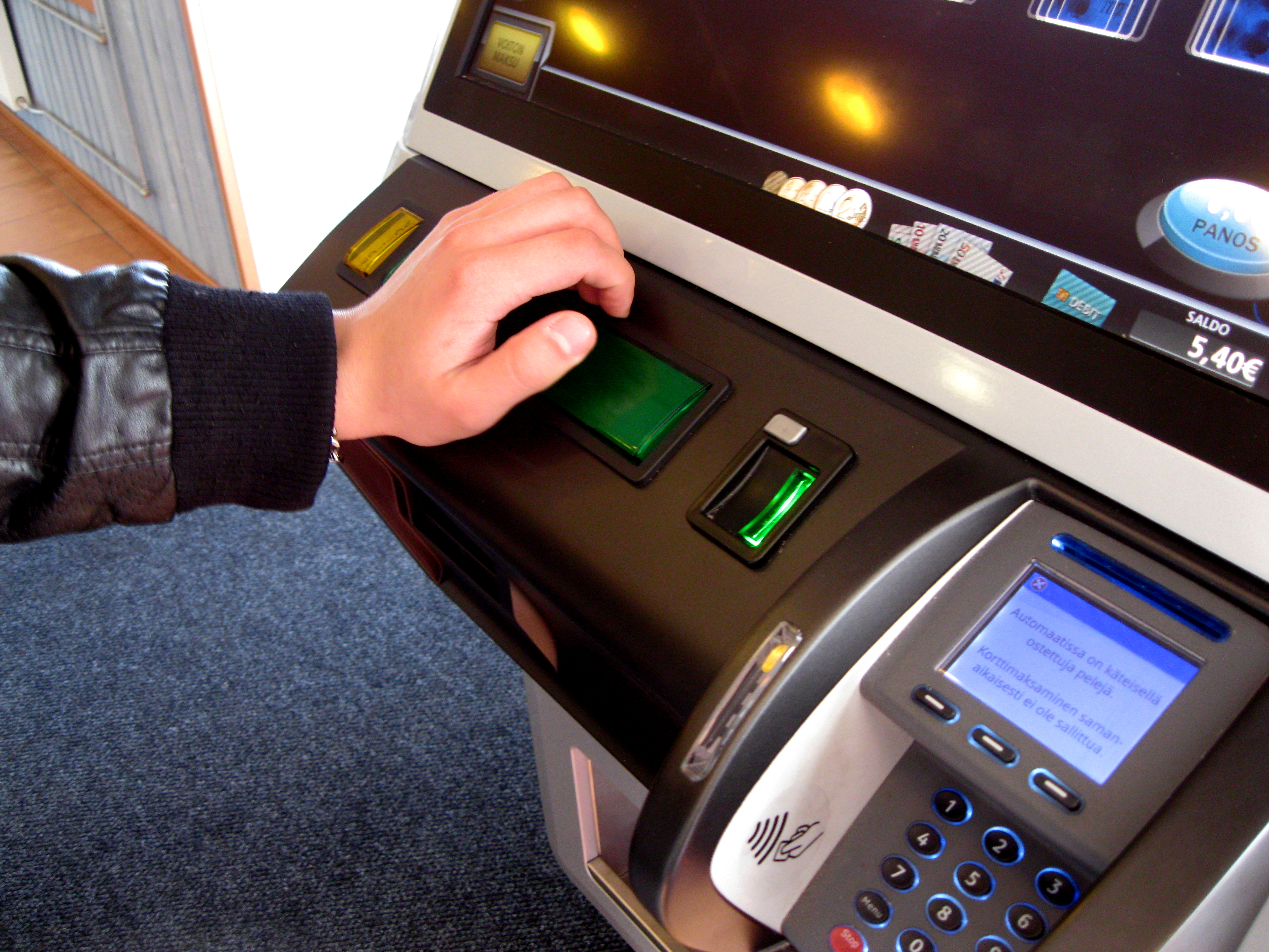 Player playing slot machine poker game.